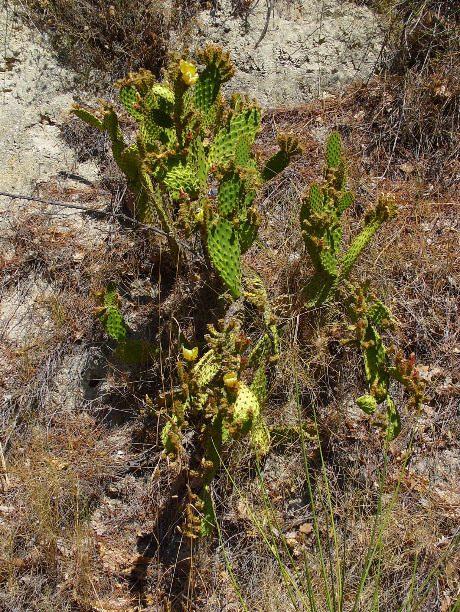 Opuntia engelmanii, Cactaceae, Engelmann prickly pear, habitus. Ille sur Têt, France.